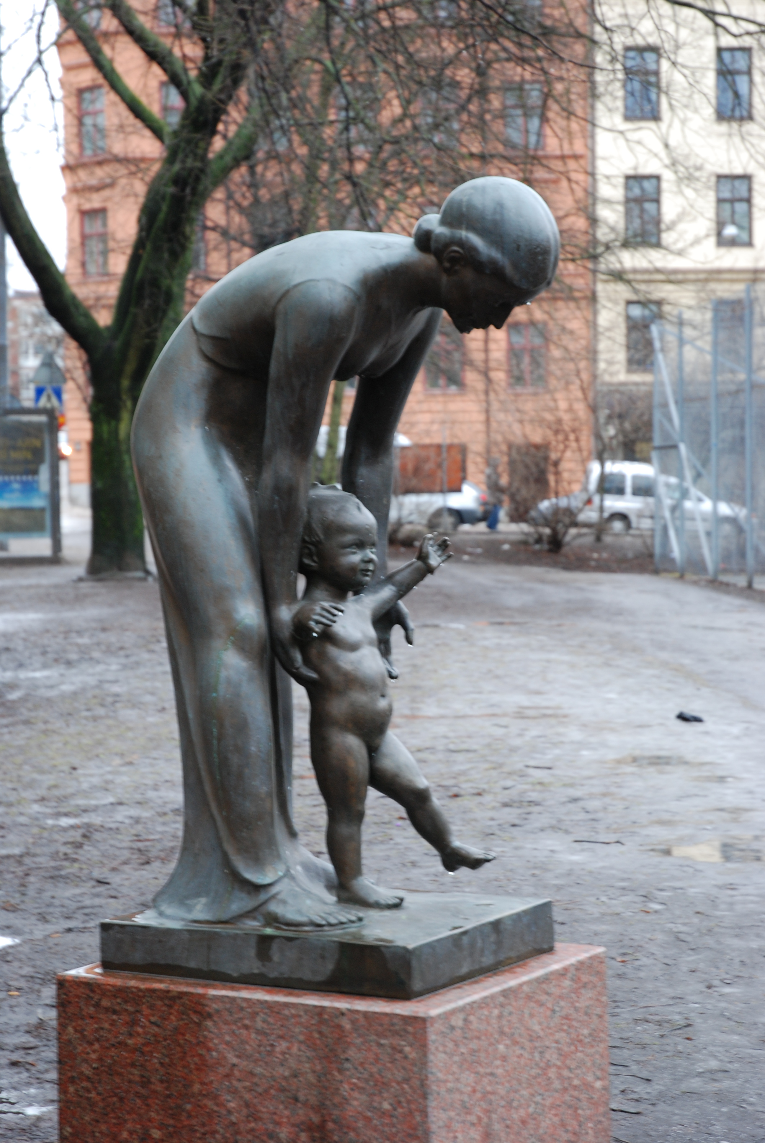 Karl Hultström´s First steps, Stockholm, Sweden